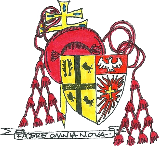 This is a pen-and-marker rendering of the coat of arms of Cardinal Adam Maida, formerly the Archbishop of Detroit.